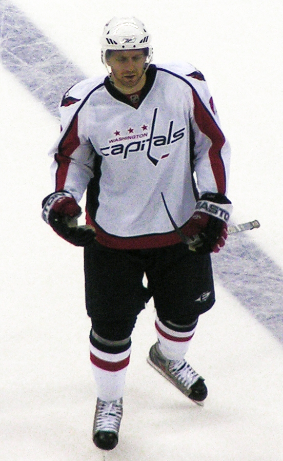 Eric Fehr plays with Capitals ant New Jersey